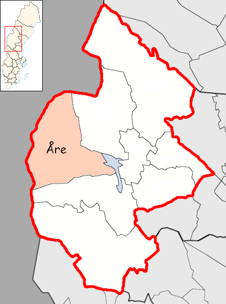 Åre Municipality in Jämtland County Designd by me, based on Image:Jämtland County.png